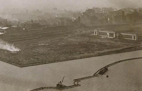 The Santa Maria over Lake Michigan in the summer of 1921